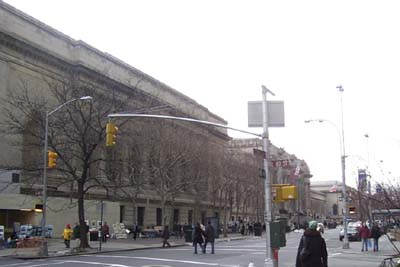 Metropolitan Museum of Art, New York City Personal snapshot by Montréalais.